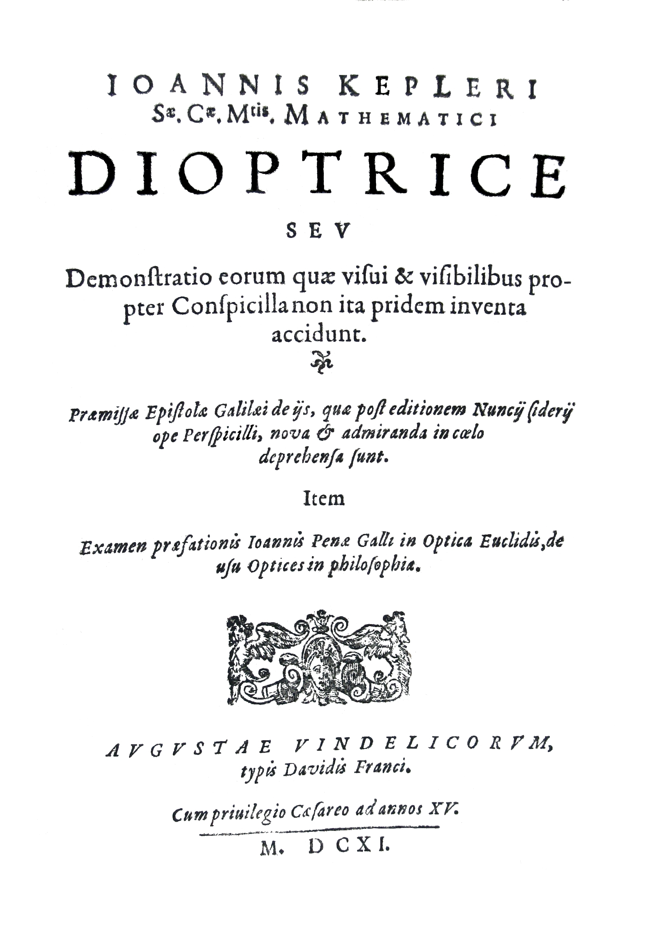 First page of Kepler's book: Dioptrice